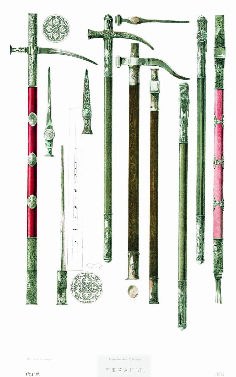 Chekans / War hammers